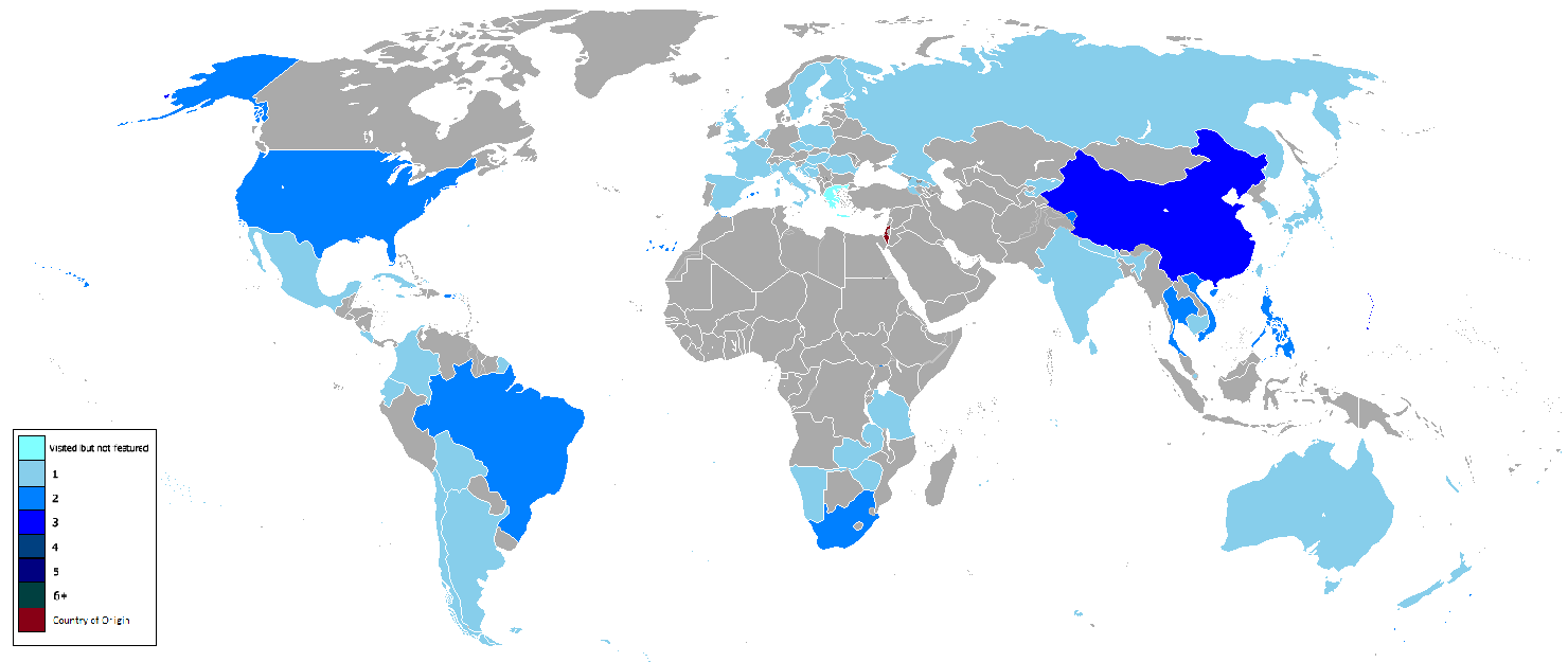 Map of HaMerotz LaMillion.